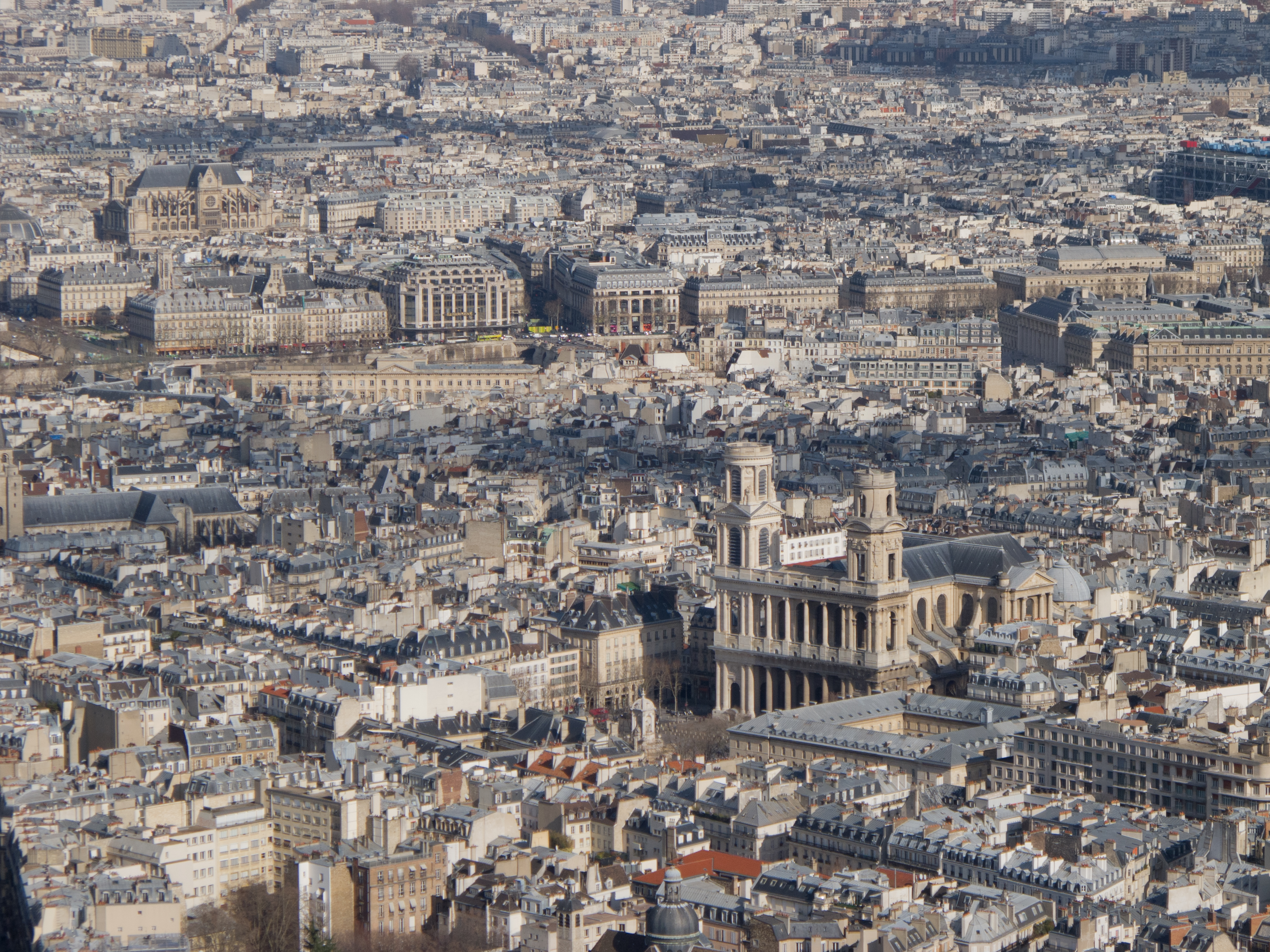 Saint-Sulpice, Île de la Cité, Quai de la Mégisserie, Saint-Eustache from the Tour Montparnasse.